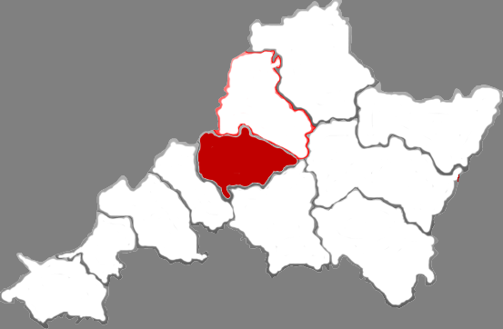 Location of Taigu county-level city in JinzhongCity, China